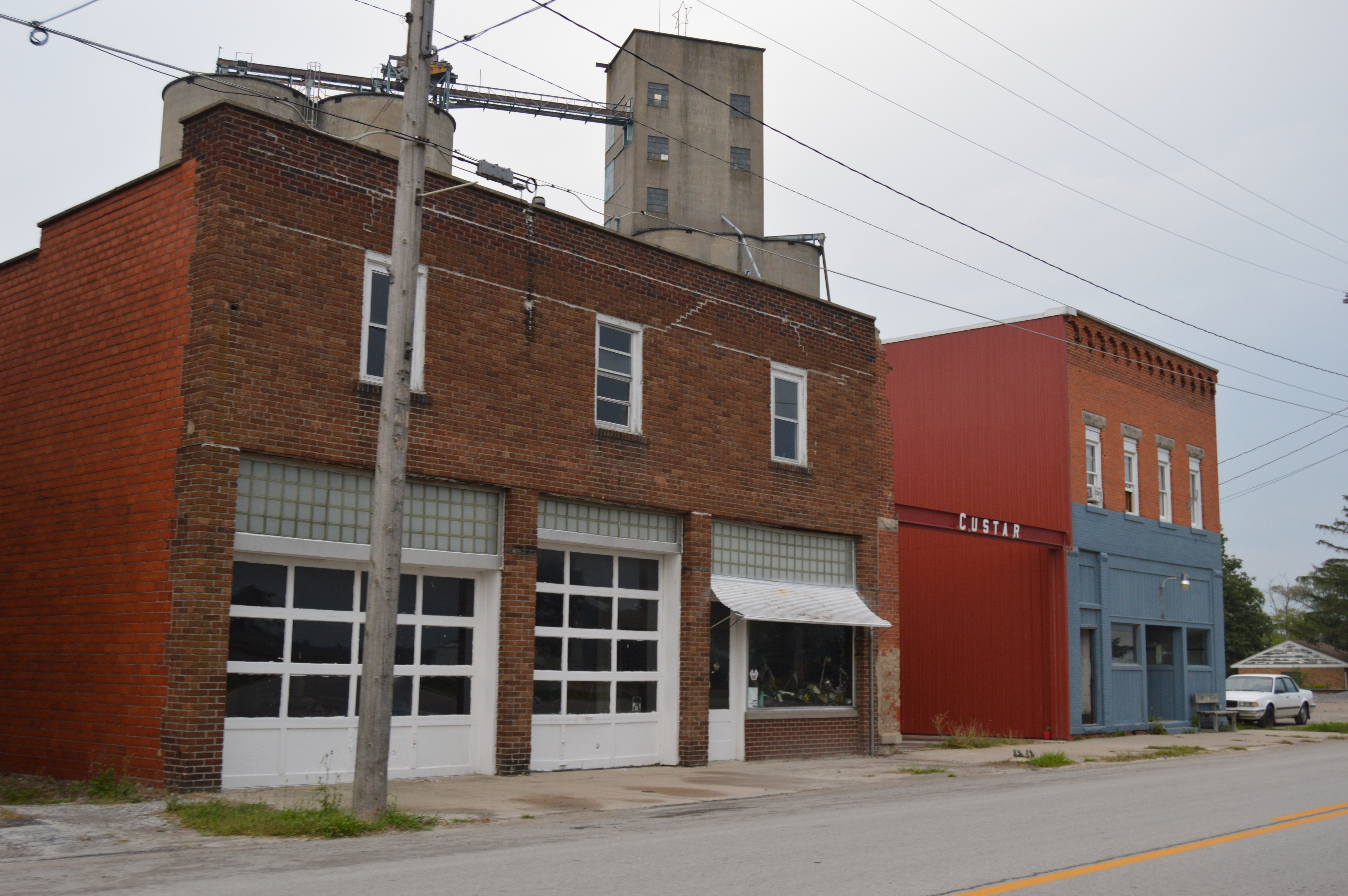 Buildings on Defiance Pike (State Route 281) just east of the Superior Street intersection in Custar, Ohio, United States. The community grain elevator is visible in the background.